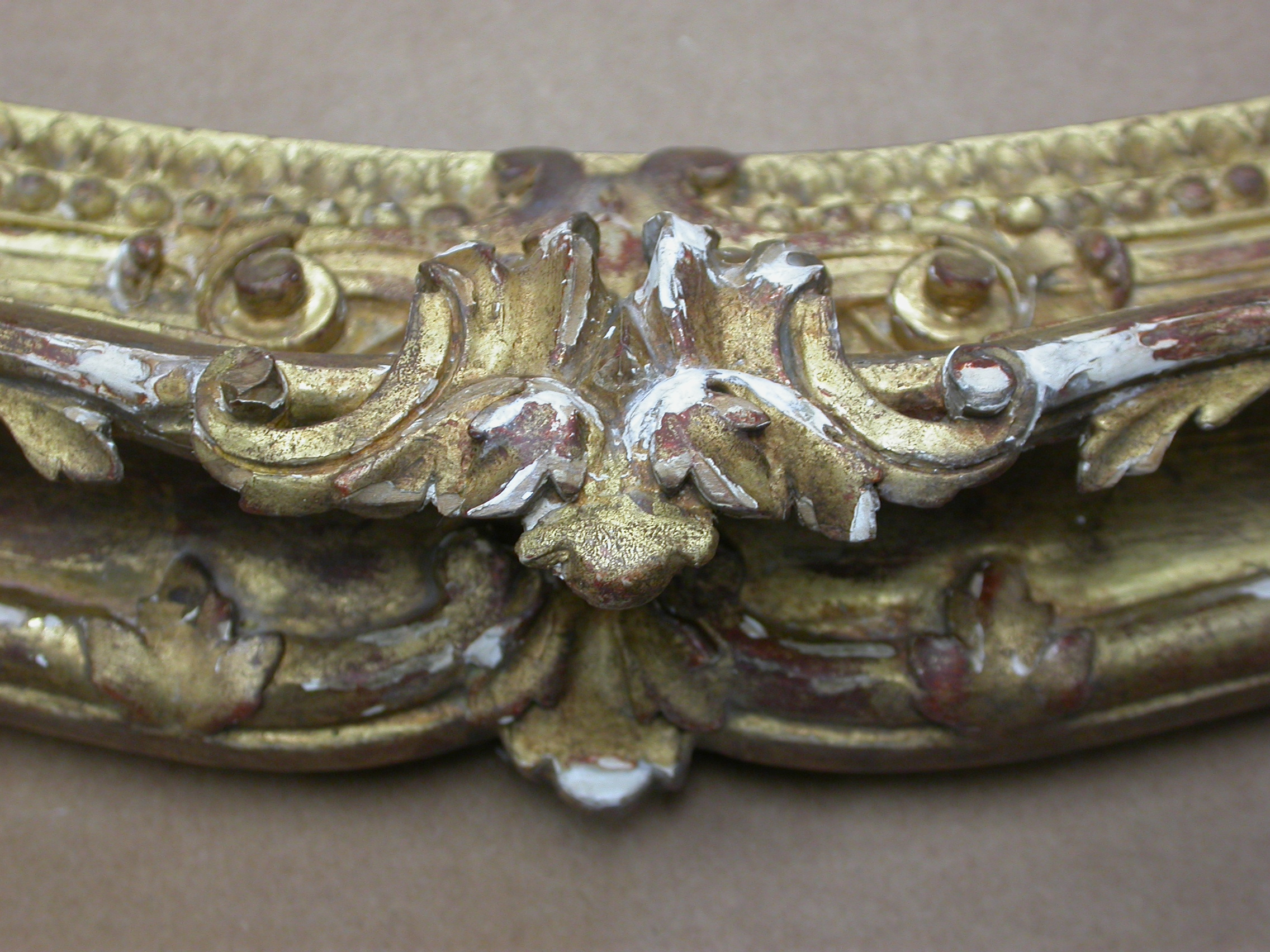 IMA Conservation technician repairing a gilded picture frame. "Courtesy of the Indianapolis Museum of Art."